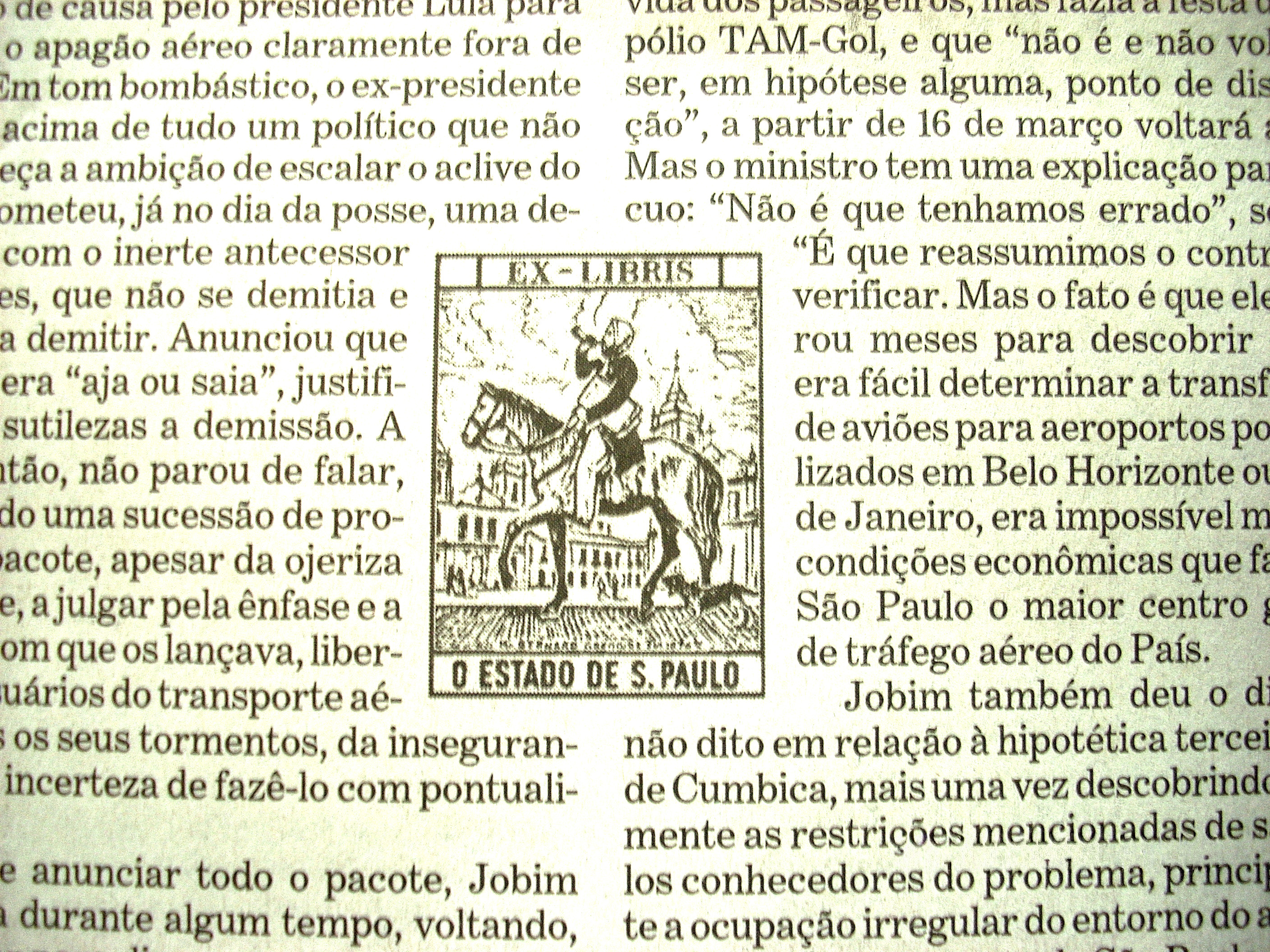 Bernard Gregoire riding a horse and playing a cornet, current symbol of the Brazilian newspaper O Estado de São Paulo.